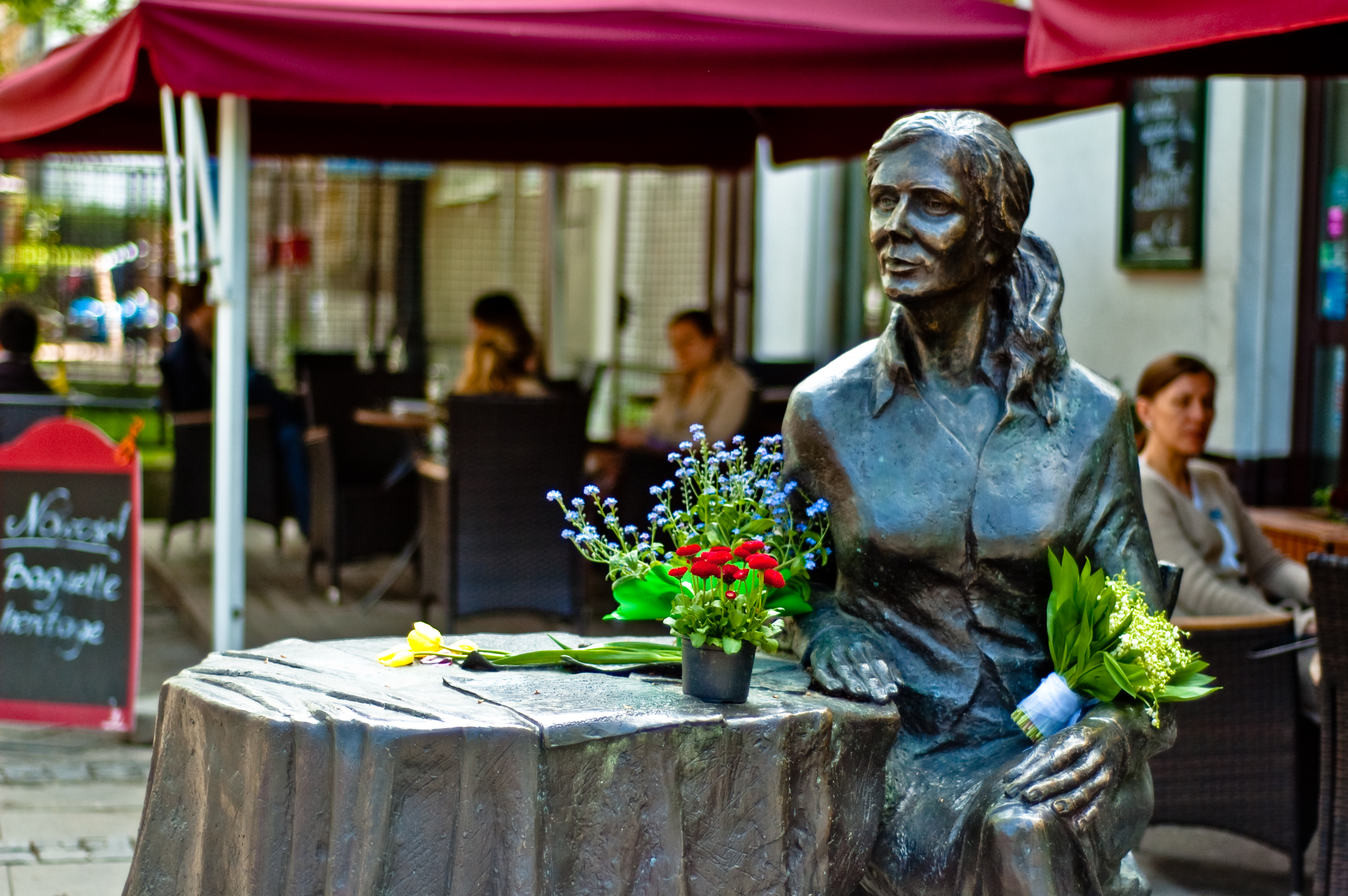 Statue of poet ouside cafe in Warsaw. She also coined the 'Coke is it' slogan.